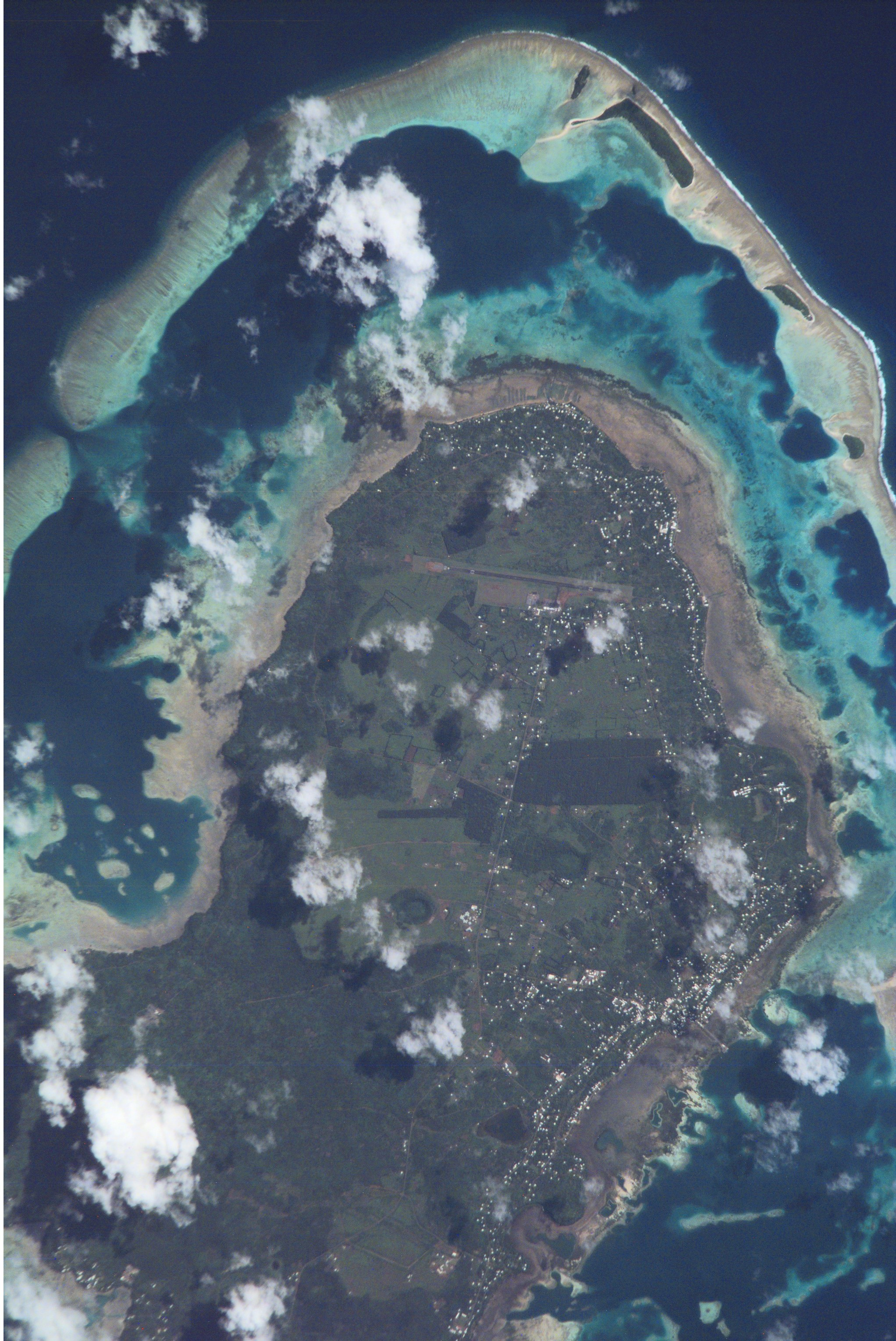 Satellite picture of the North of Wallis island (South Pacific) (Hihifo and Hahake districts), with some of the islets (from left to right/up to down: Nukufotu, Nukuloa, Nukuteatea and Nukutapu. Also visible are the Hihifo airstrip and the capital of Wallis, Mata Utu.